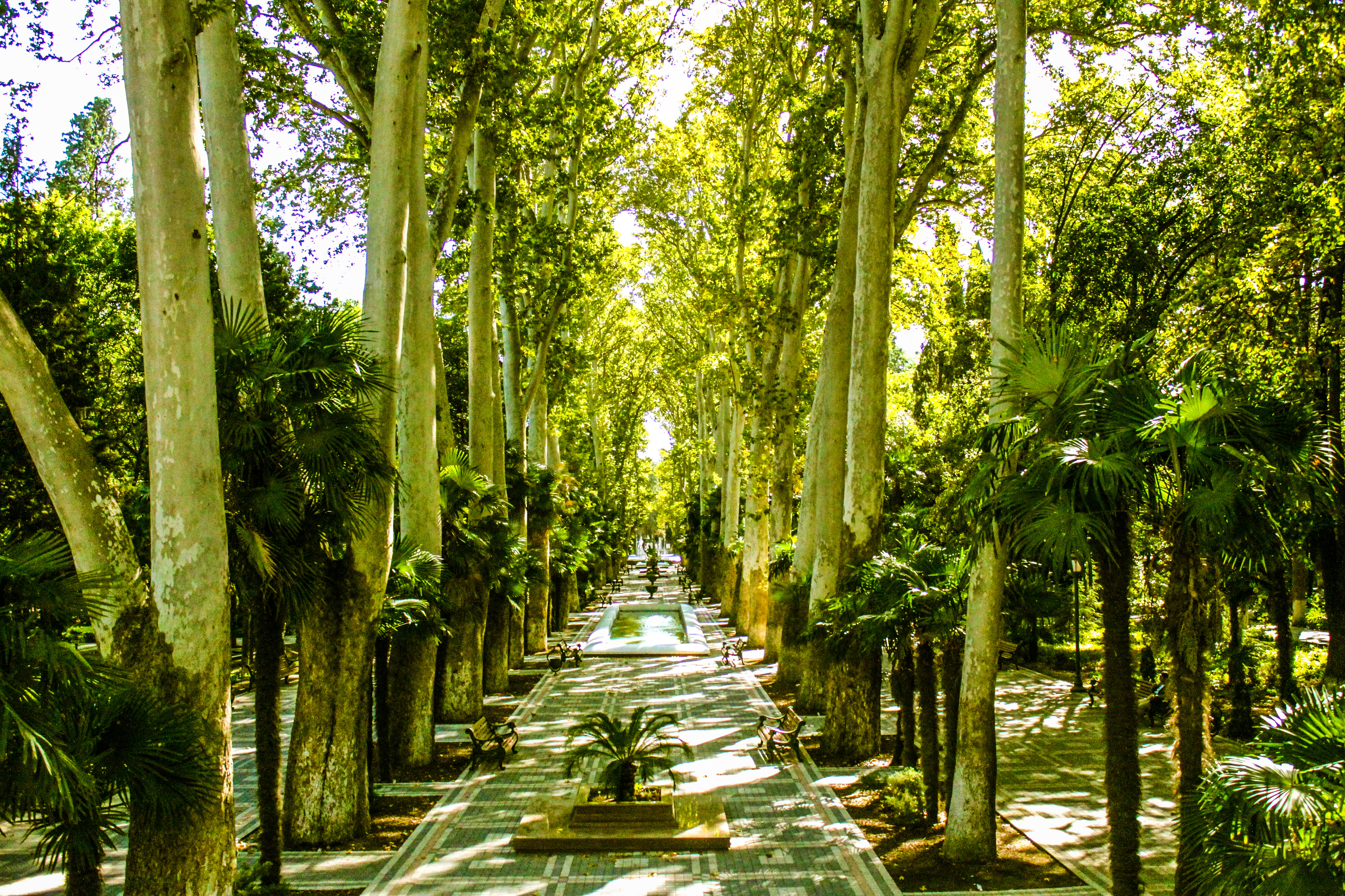 Khans garden in Ganja